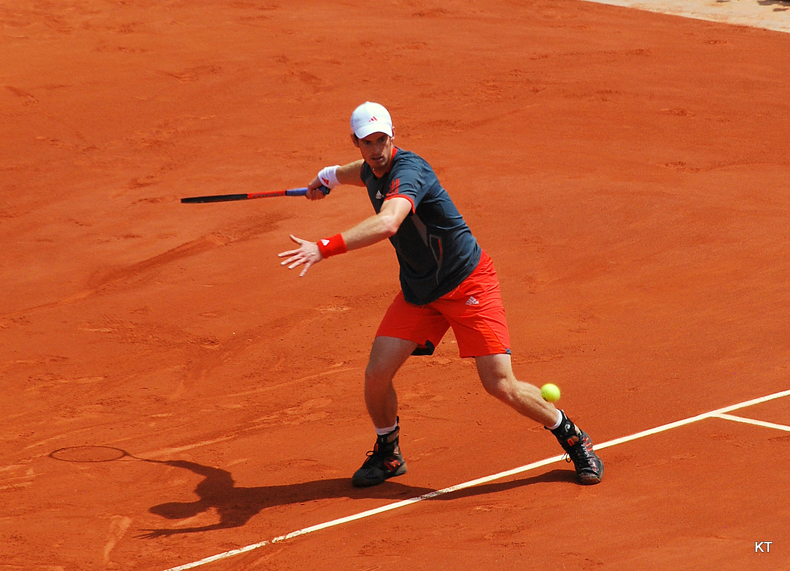 Andy Murray during his 2nd round match with Jarkko Nieminen. Murray won 1-6, 6-4, 6-1, 6-2. Day 5 of Roland Garros 2012.